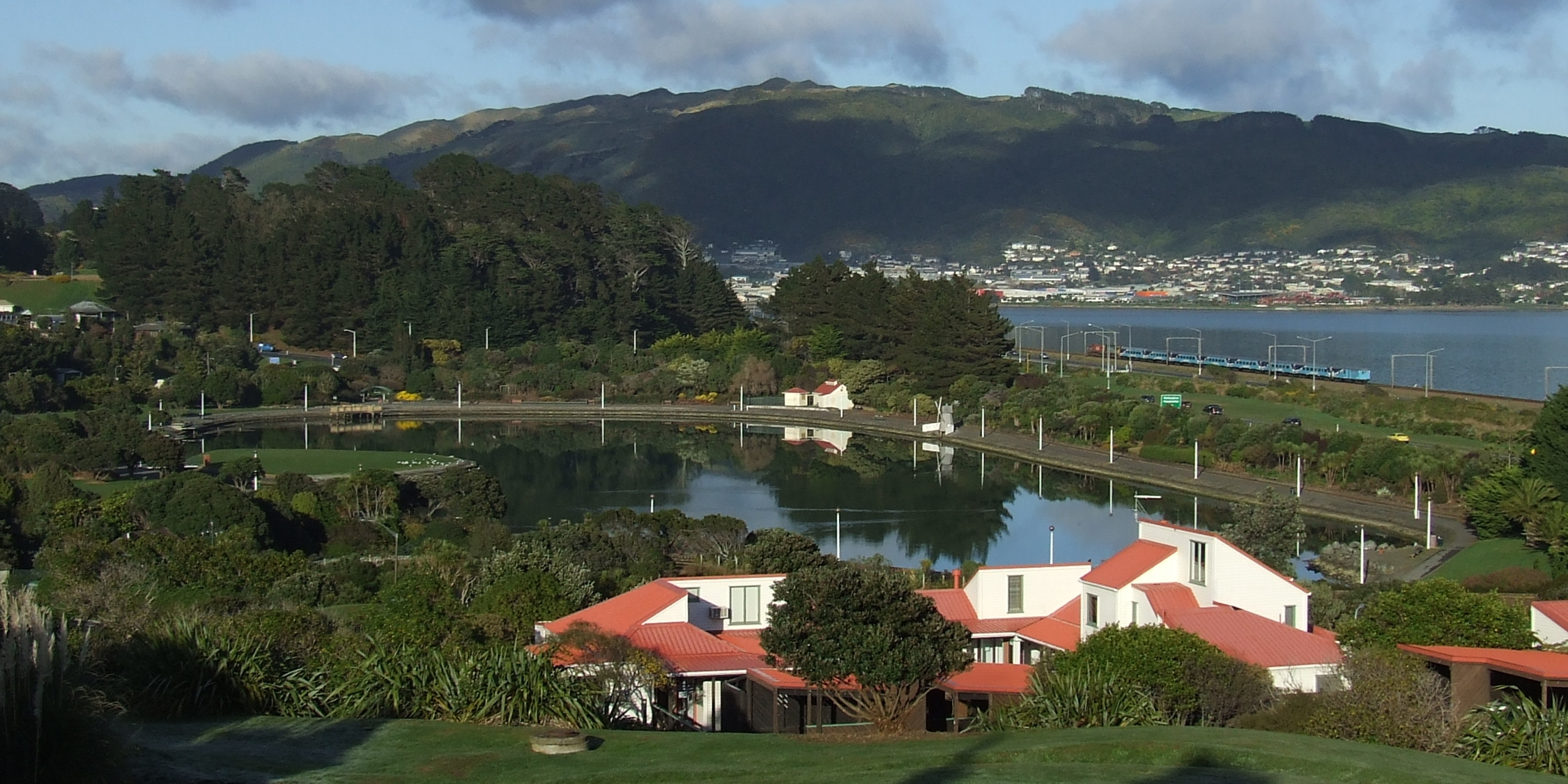 View of Aotea Lagoon, North Island, New Zealand from the north-east. Royal New Zealand Police College chalets in the foreground with Pipitea miniature railway station across the lagoon. To the right State Highway 1 and the North Island Main Trunk railway line with a southbound Capital Connection train. Further right is Porirua Harbour, in the background Takapuwahia, Elsdon and the Colonial Knob ridge.